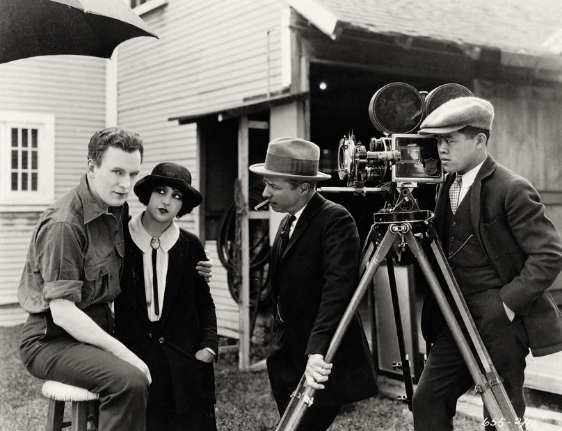 L. to R. : Thomas Meighan, Estelle Taylor, Herbert Brenon (director) and James Wong Howe (cinematographer) on the set of The Alaskan - publicity still